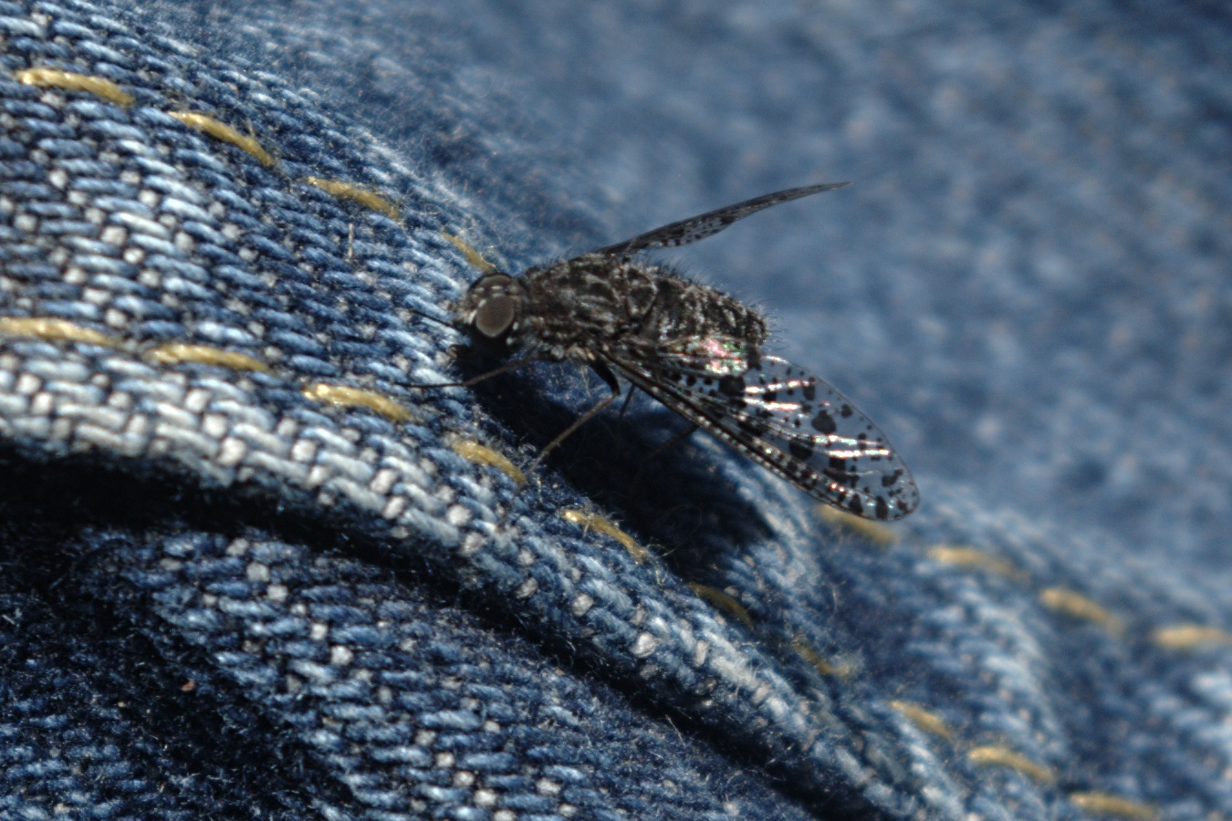 A bee fly, Anthrax oedipus or a similar species of that genus, on my leg, Borrego Mesa, Santa Fe County, New Mexico. Thanks to Joel Kits at for identification.